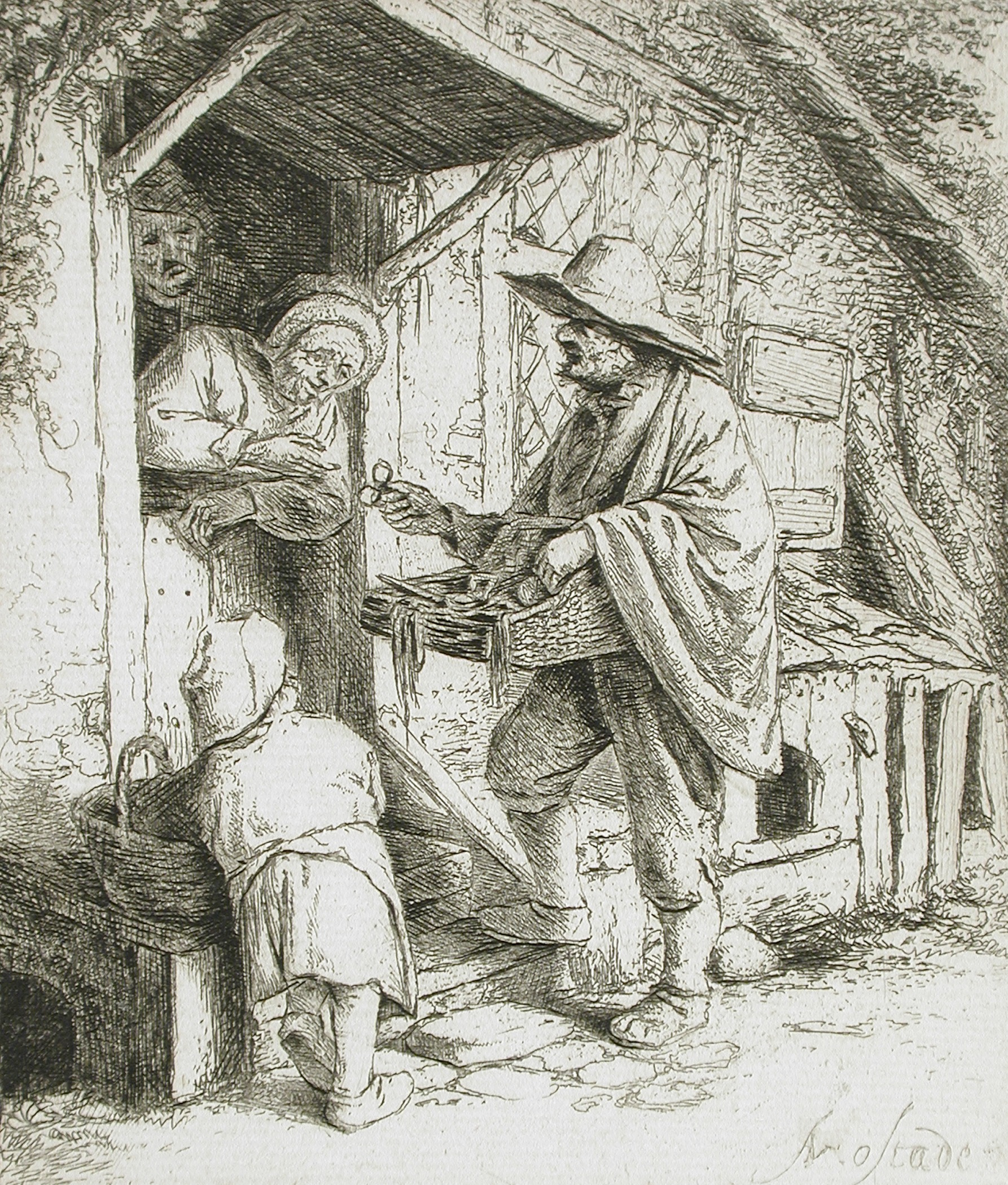 Holland, 1646 (?) Alternate Title: Le Marchand de lunettes Prints; etchings Etching Gift of Mrs. Mary B. Regan (31.21.98) Prints and Drawings